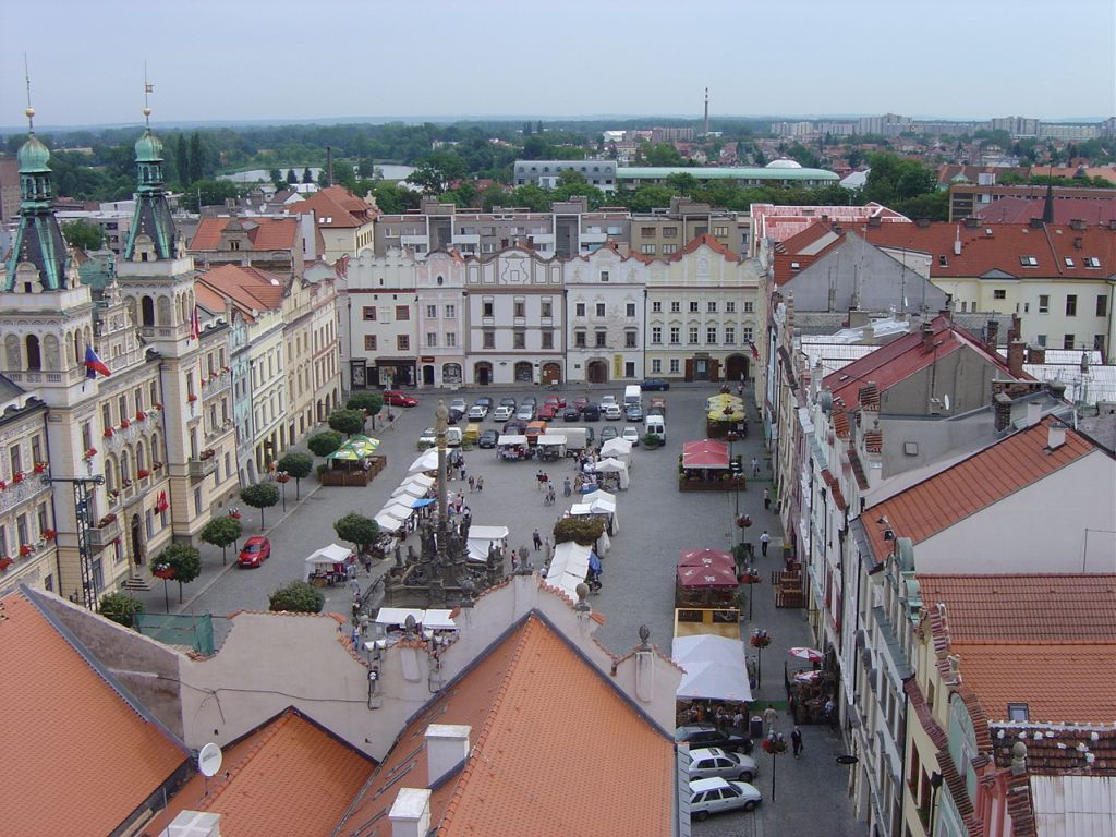 Green Tower in Pardubice - view on Pernstynske square